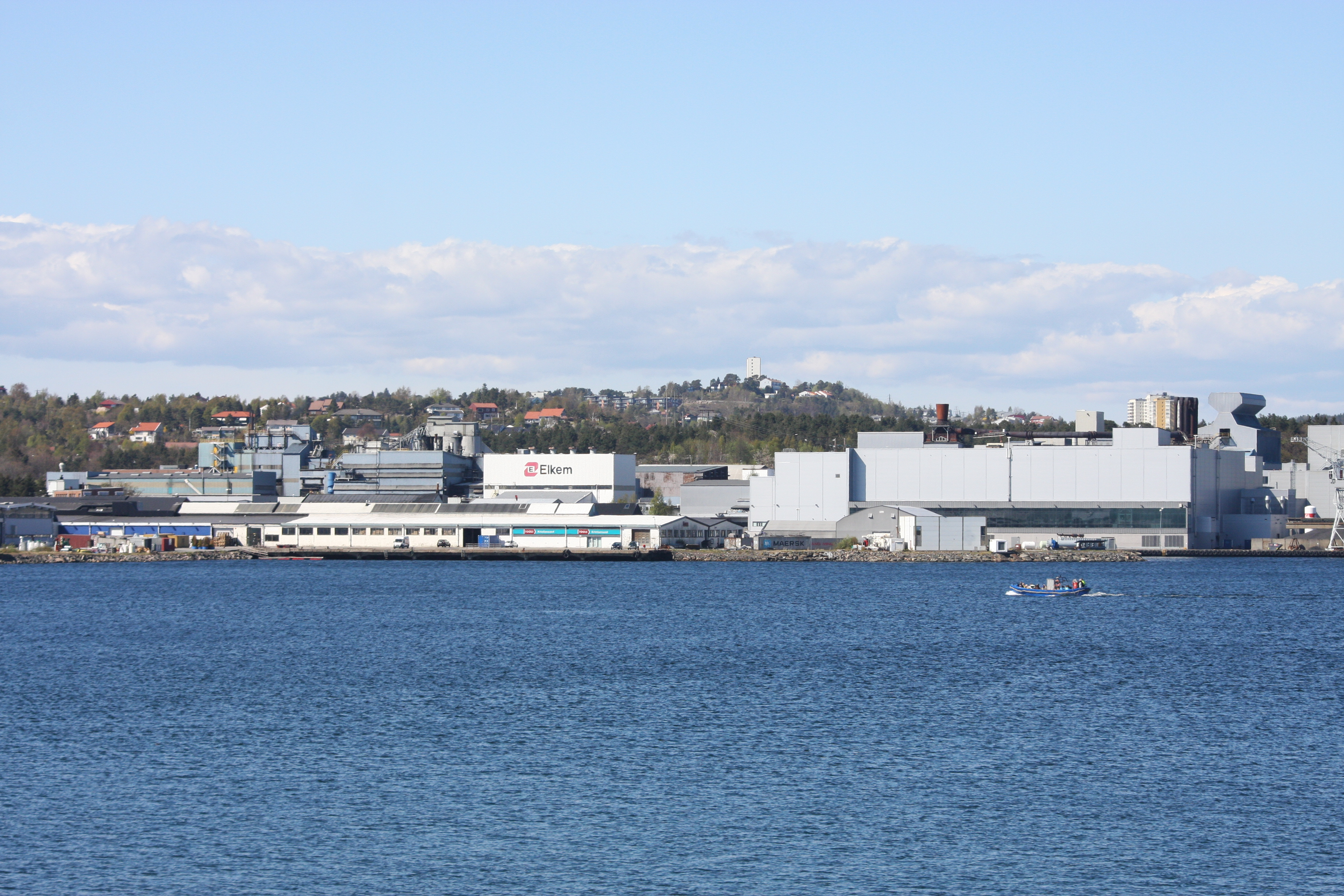 Elkem Solar, Kristiansand (Norway). Silica solar wafer factory.